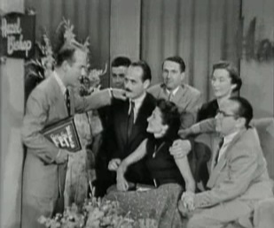 Scene of “This Is Your Life: Hanna Bloch Kohner” (NBC, 1953)